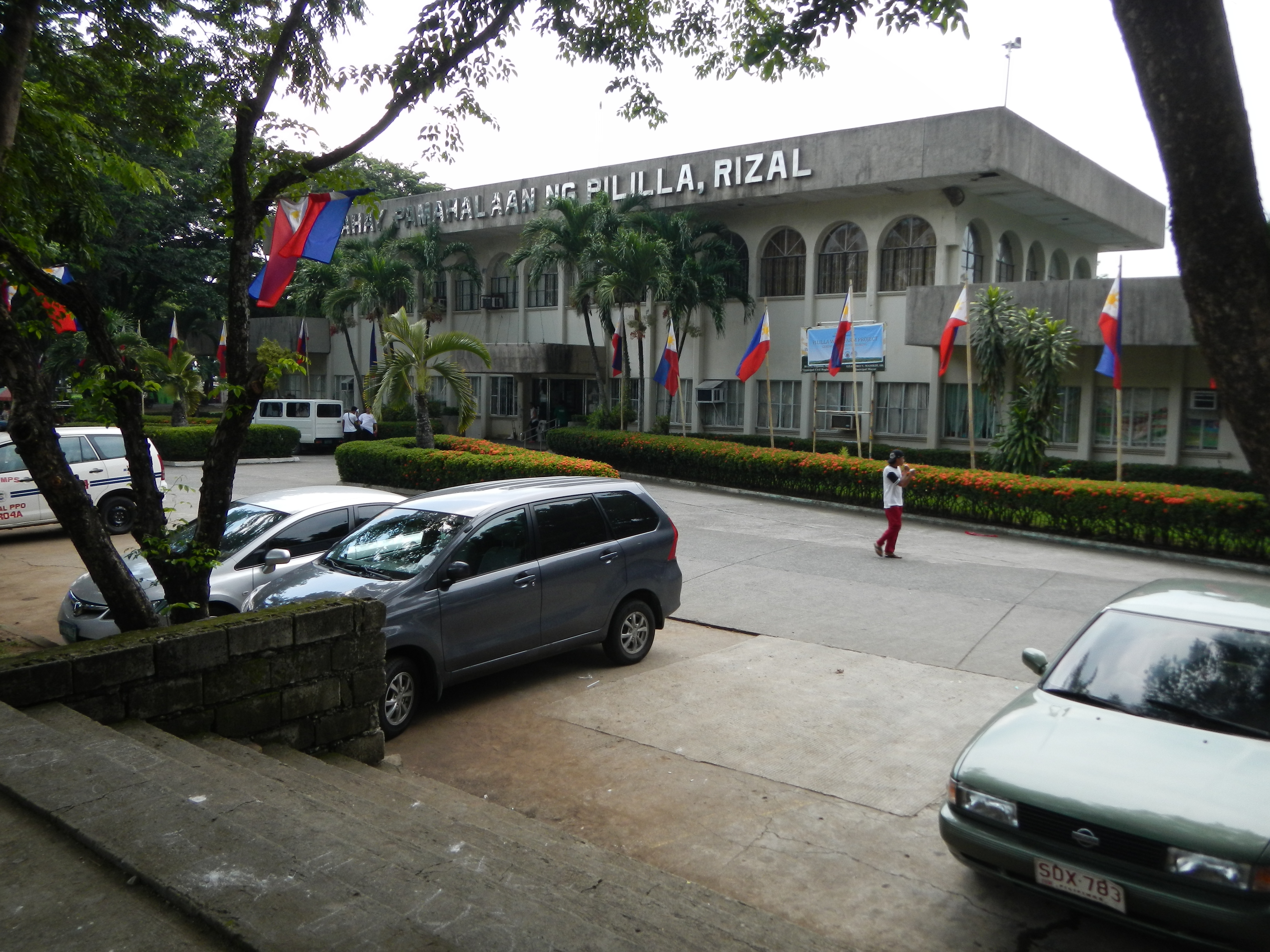 The Municipal Part and Ynares Stage, Plaza, including the Park and "Perya" surrounding the Municipal Building - Hall of --- Pililla, Rizal [1] is a first class urban municipality in the province of Rizal,[2] Philippines with a population of 59,527 inhabitants in 9,001 households, and known as the Green Field Municipality of Rizal, just few kilometers away from Tanay, Rizal and subdivided into 9 barangays.Election results 2013 [3] Quisao / Land area: 73.90 km² Founded: 1583 Coordinates: 14°26'45"N 121°19'48"E Profile Pililla benefits from RE investment windfalls New wind farm in Rizal A visit to Sitio Bugarin, Pililla, Rizal Alternergy sets aside $380 million for two Rizal wind projects Alternergy Wind One Corporation will be investing $380 million for two wind power projects of 67-megawatt capacity each in Rizal province; the planned Mount Sembrano wind power facility will come next.